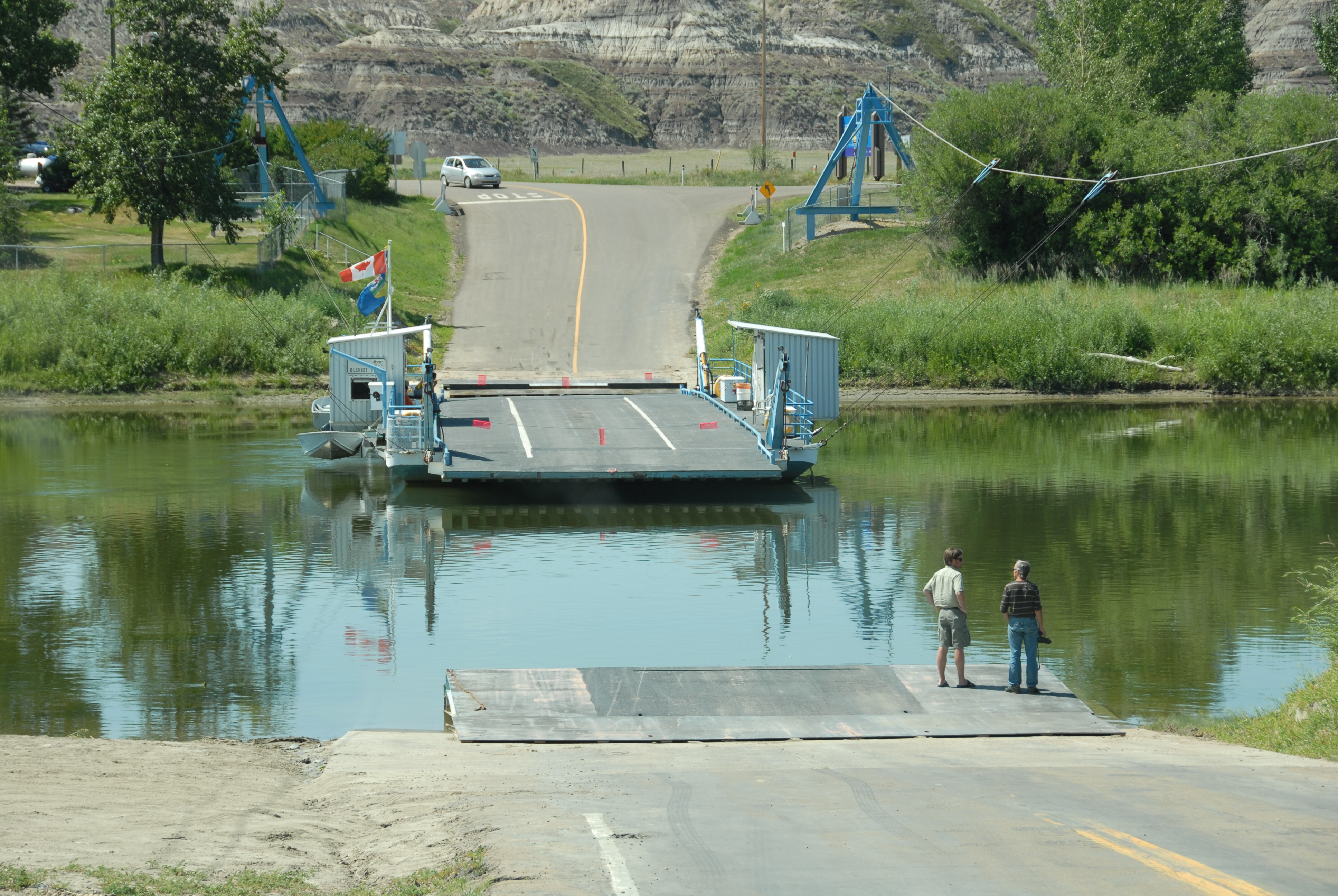 View of the Bleriot Ferry near Drumheller, AB, Canada.